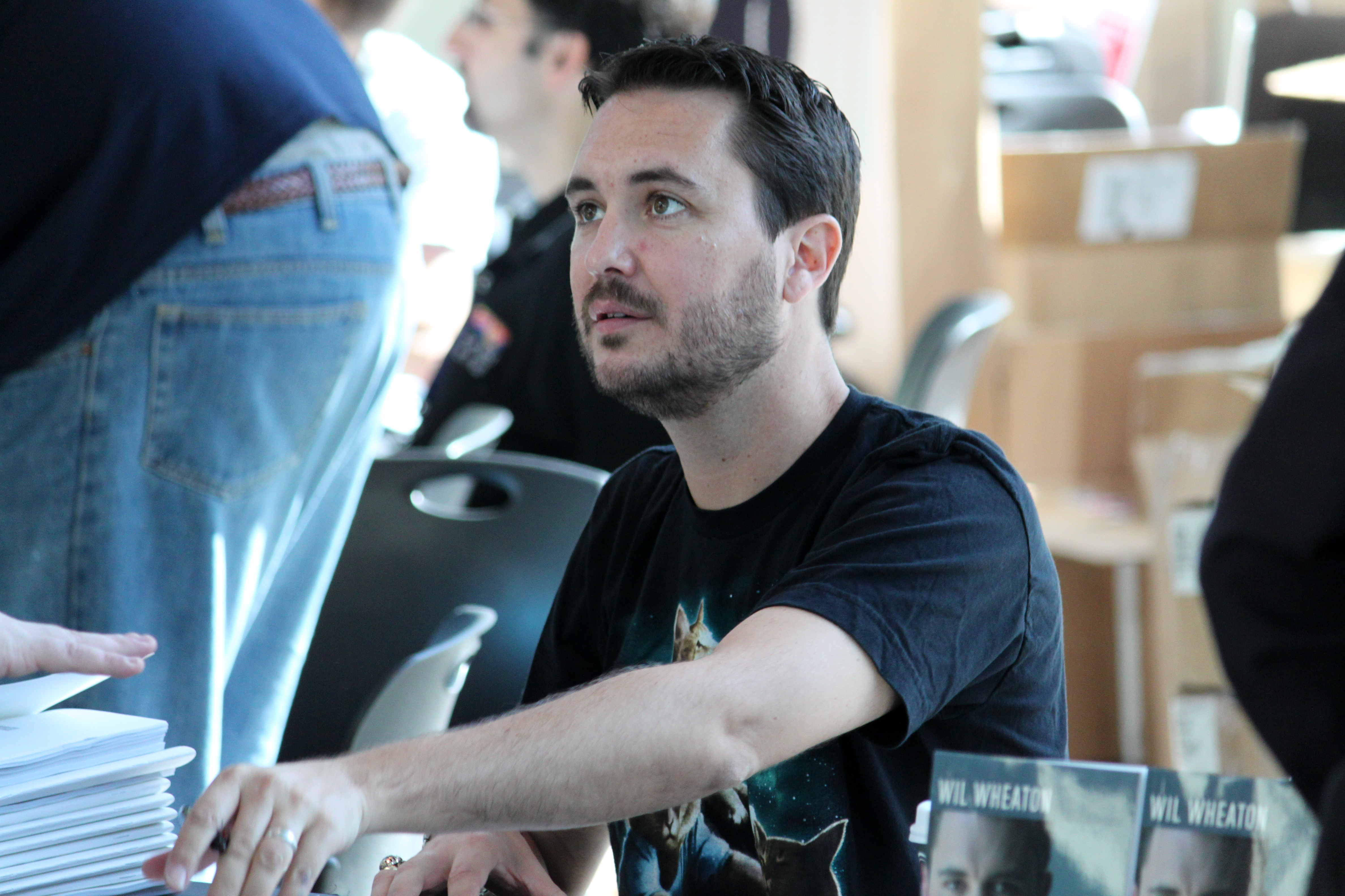 Wil Wheaton manning a merch booth. Taken during Day 1 of PAX 2009.